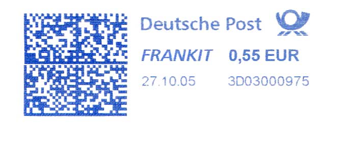 Meter stamp catalog image, Germany type S